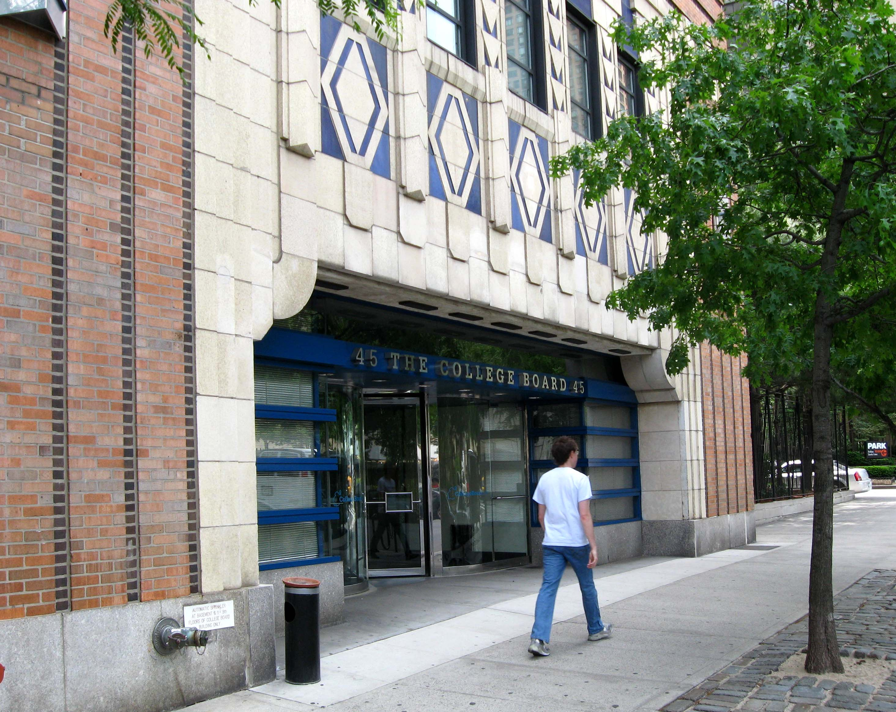 Looking south at The College Board at 45 Columbus Avenue. See File:Kent automat park 43 W61 jeh.JPG for apartment side.